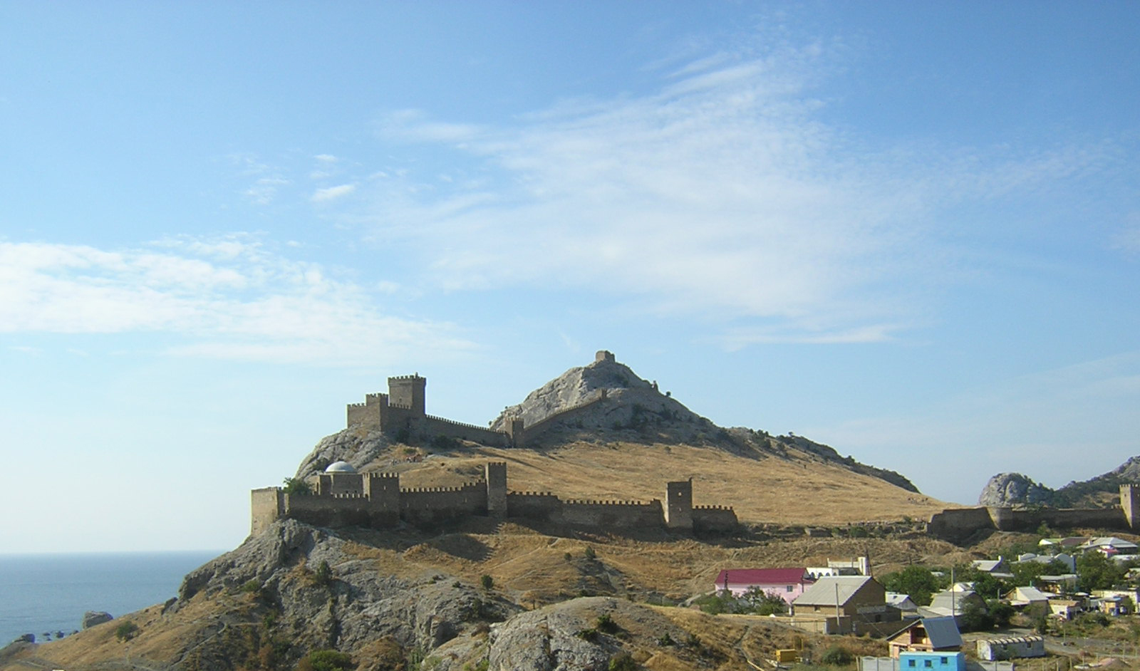 Genova fortress in Sudak. Crimea, Ukraine